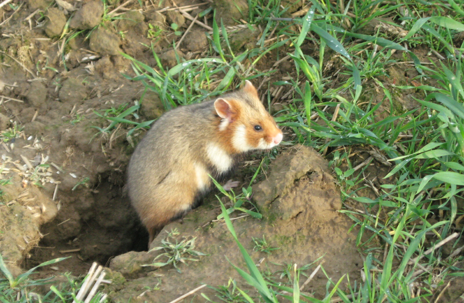 Cricetus cricetus - Lubin area; Poland